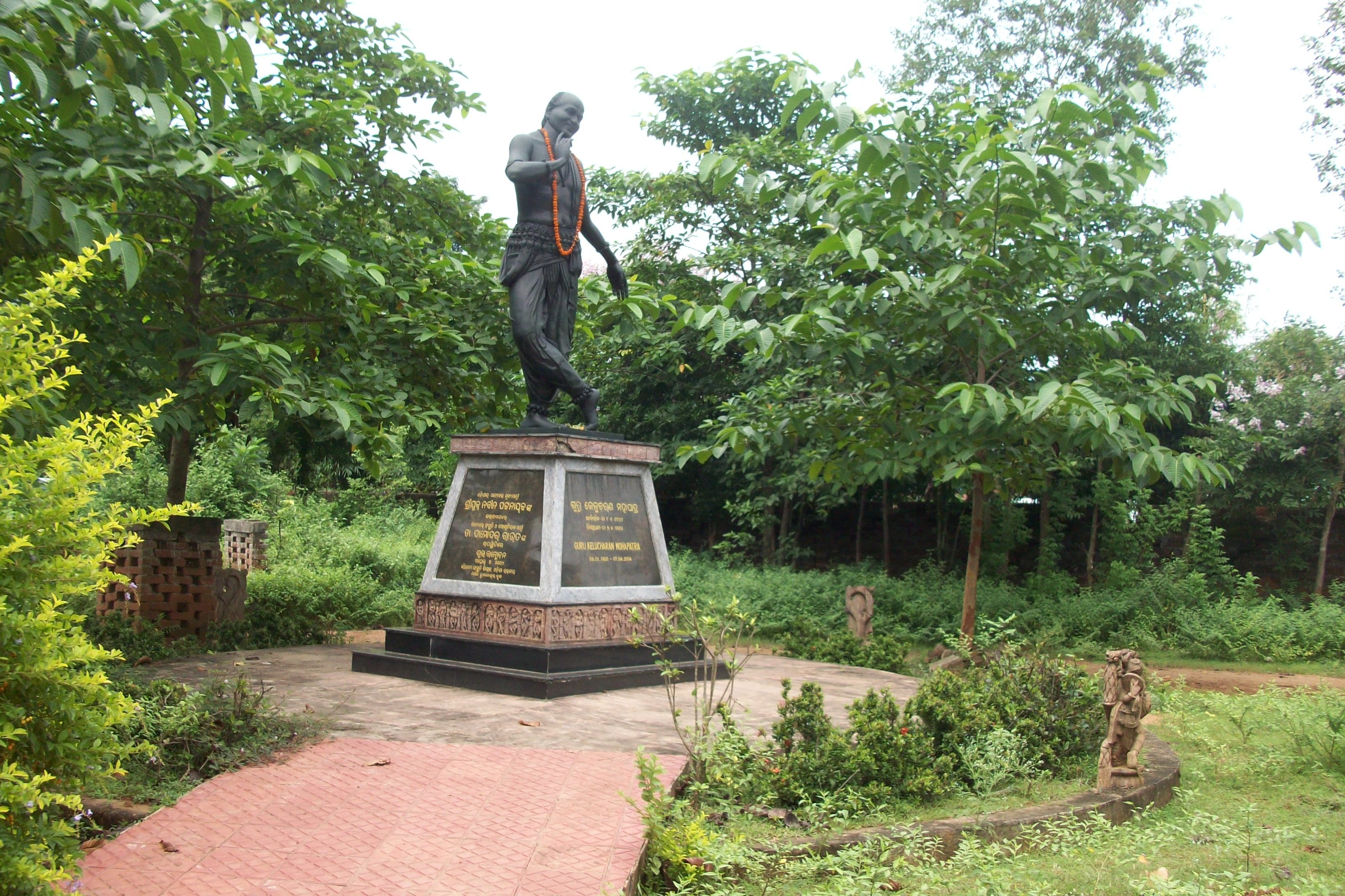 The statue of the legendary Odissi dance maestro, Padmabhushan guru Kelucharan Mohapatra at the premier institution of Odissi- Guru Kelucharan Mohapatra Odissi research Centre Bhubaneswar